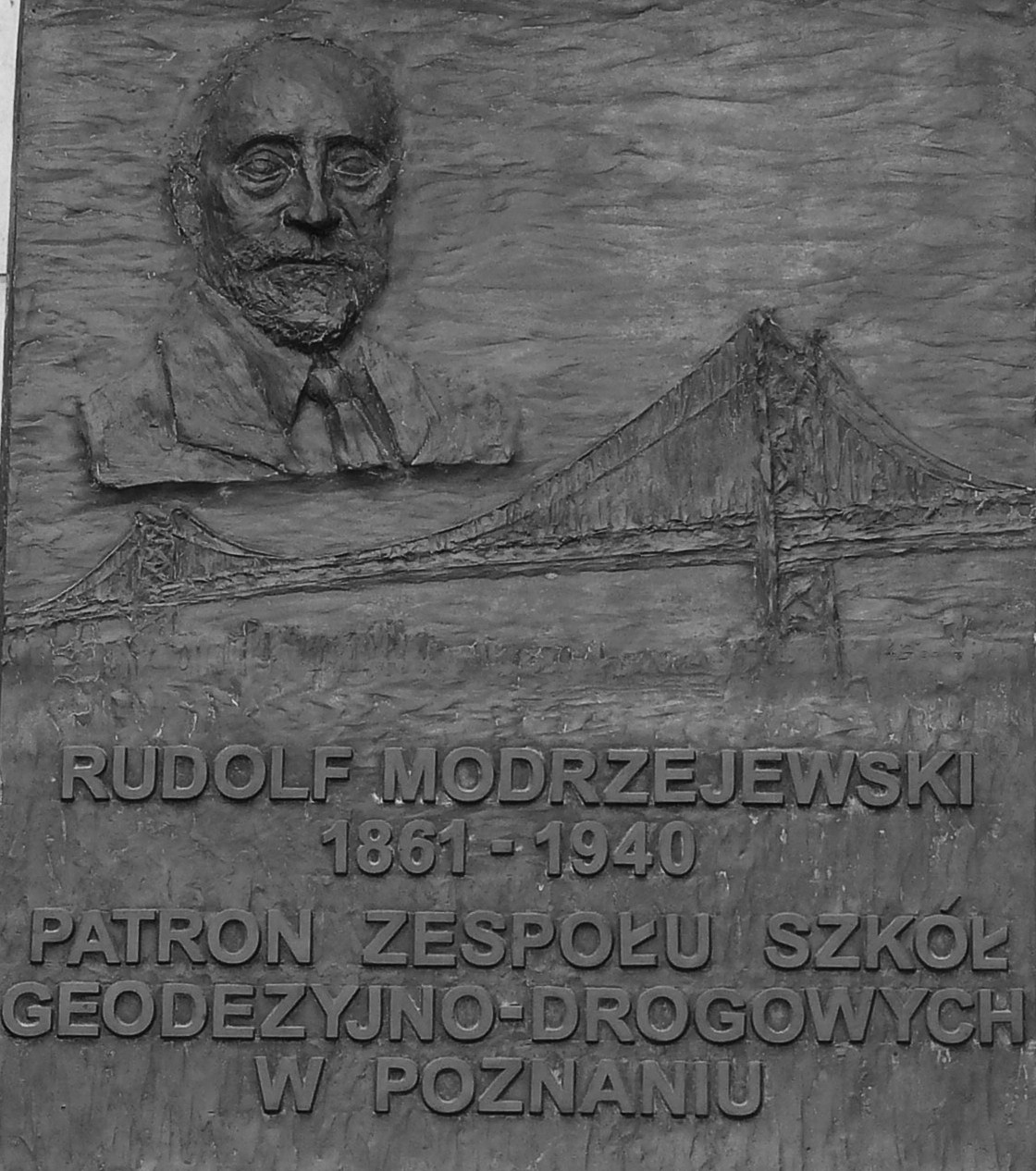 Rudolf Modrzejewski plaque at 33 Szamotulska Street, Poznan, Poland